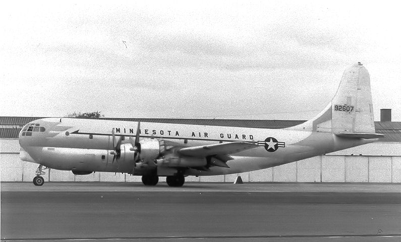 109th Air Transport Squadron Boeing C-97A Stratofreighter 49-2607. Retired 1964